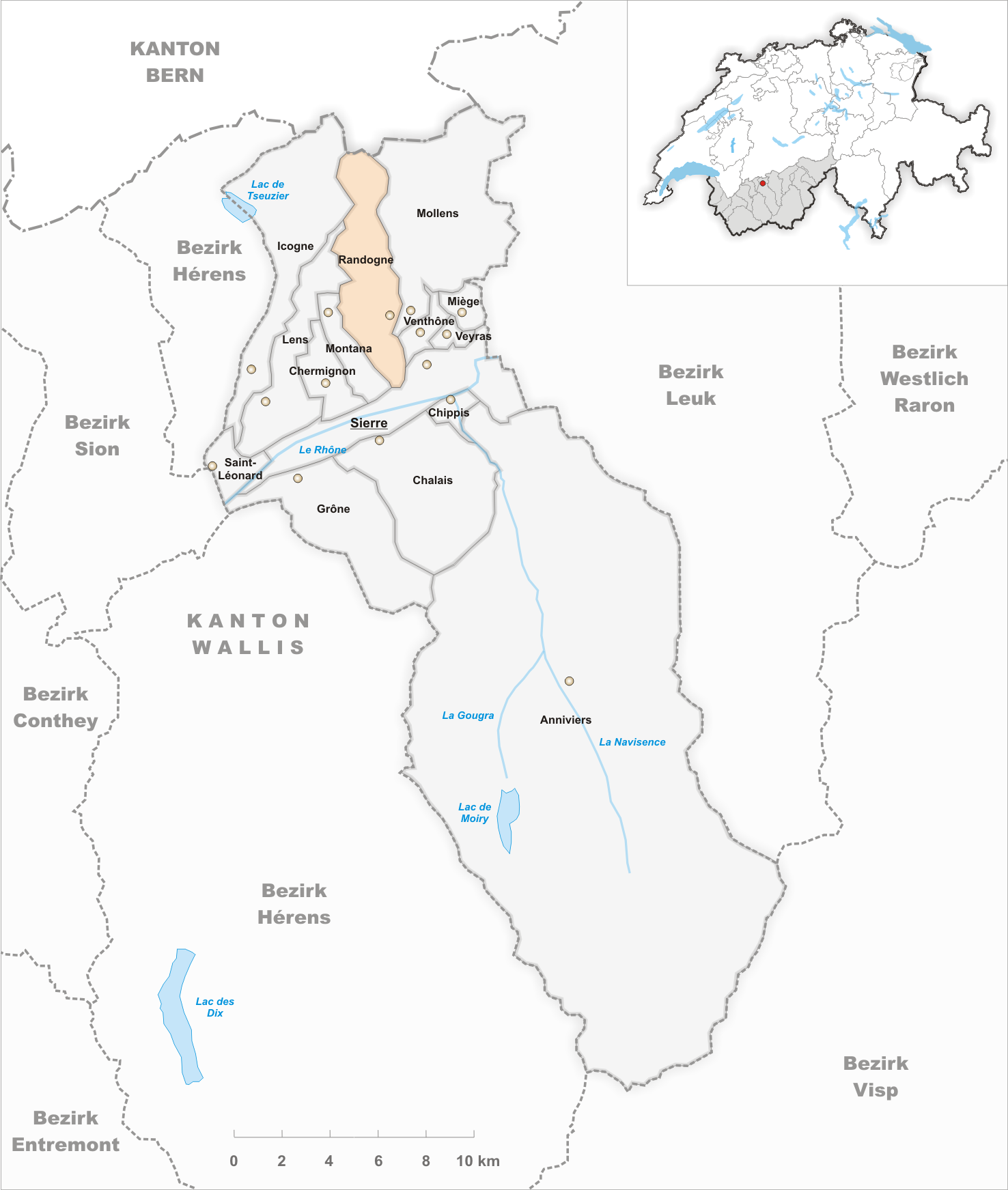 Municipality Randogne